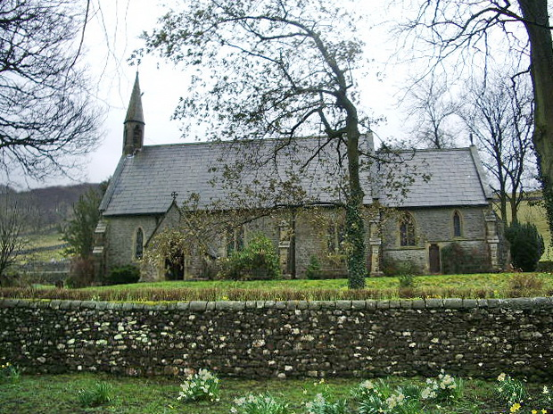 St John the Evangelist Church, Langcliffe The tiny chapel (1851) with slender bell-turret and steeply-pitched roof overlooks one of the finest village greens in the north of England village of enormous architectural interest. There are various memorials inside, to the distinguished Dawson family of Langcliffe Hall.